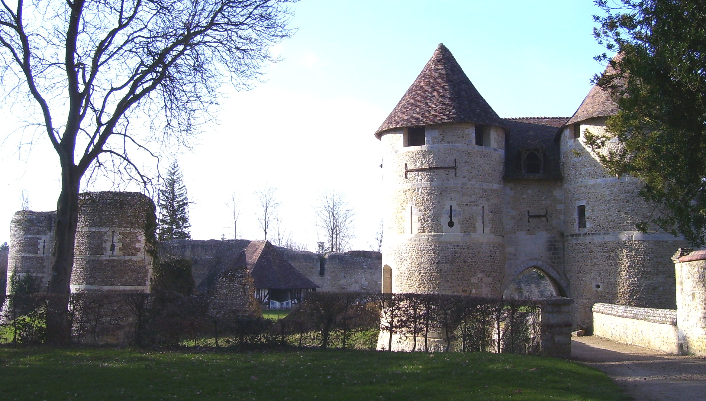 The "chatelet" (defensive small building on the entrance) and parts of the battlement in the Harcourt castle in the french departement Eure, Haute-Normandie.